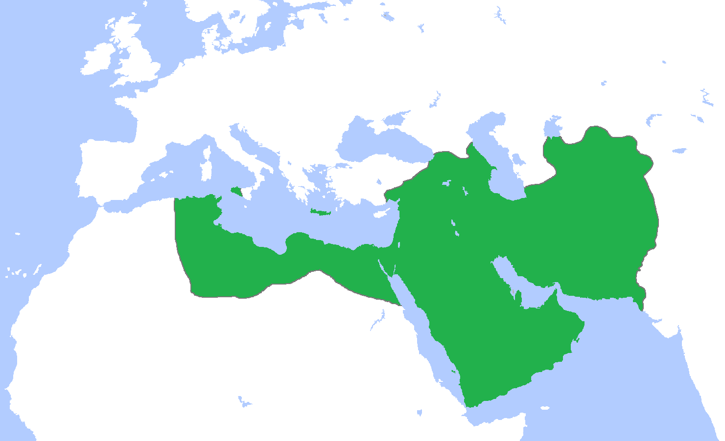 Map of the Abbasid Caliphate at its greatest extent, c. 850. (Partially based on Atlas of World History (2007) - Progress of Islam, map)